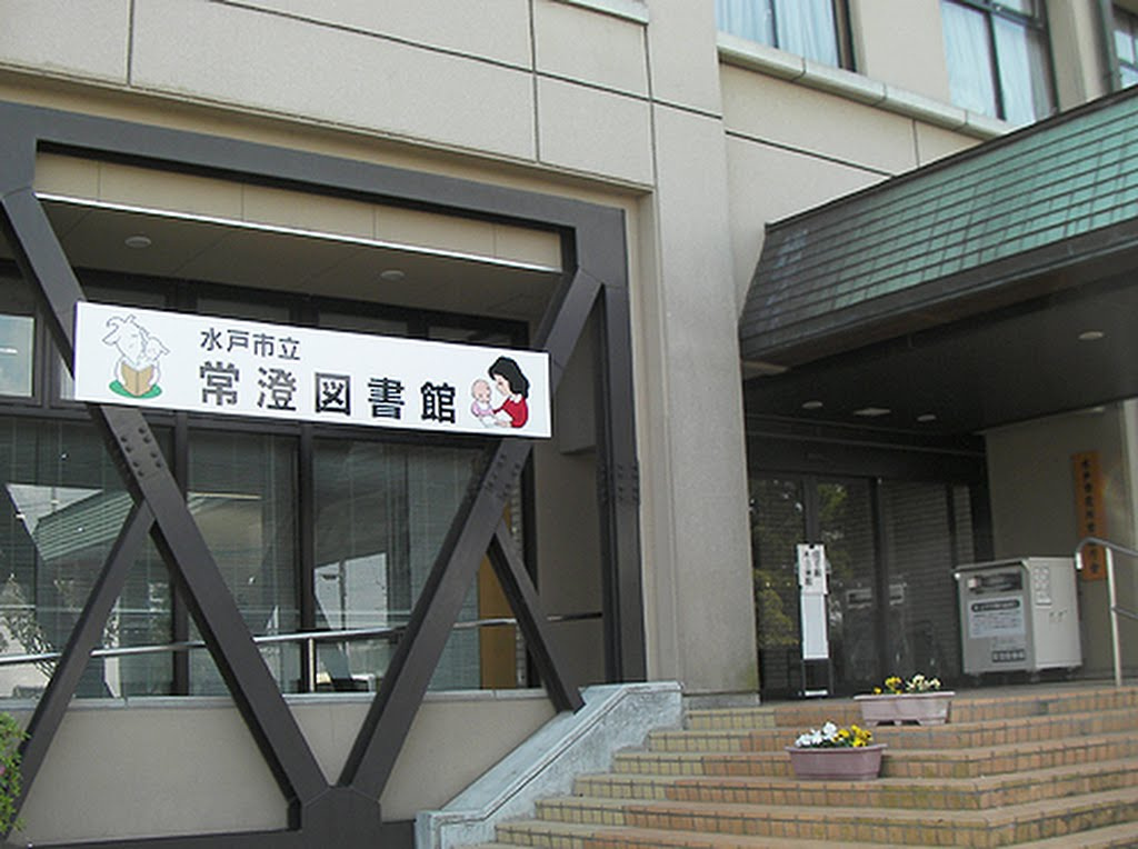 This is Mito city Tsunezumi library in Mito, Ibaraki, Japan.